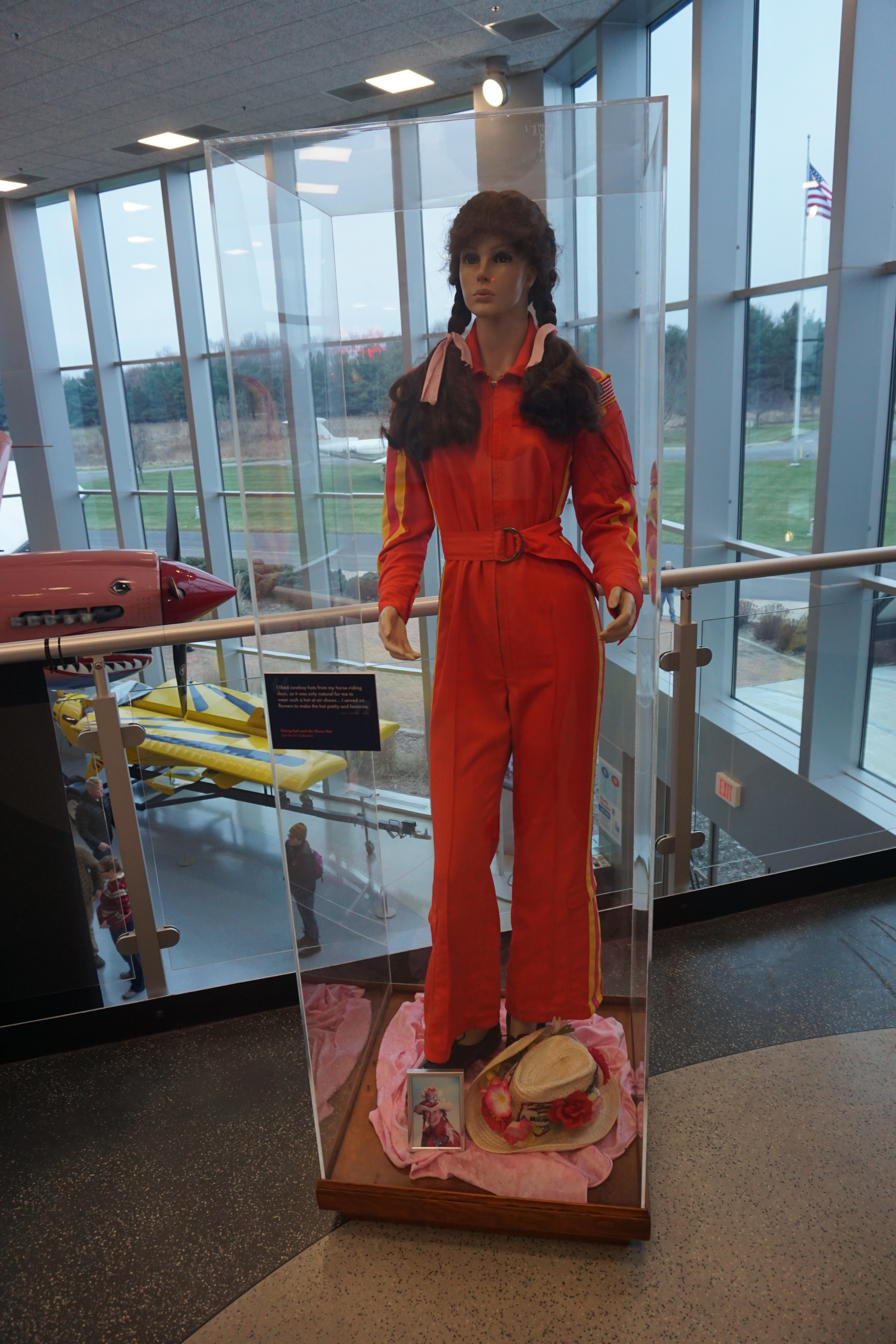 Sue Parish's flying suit and air show hat on display at the Air Zoo at Kalamazoo/Battle Creek International Airport in Portage, Michigan (United States).